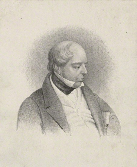 Portrait of John Harland (1806–1868), English journalist and antiquary.